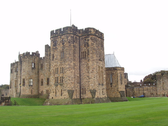 Keep of Alnwick Castle